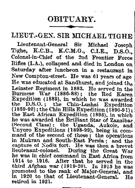 Obitjuary of Michael Tighe